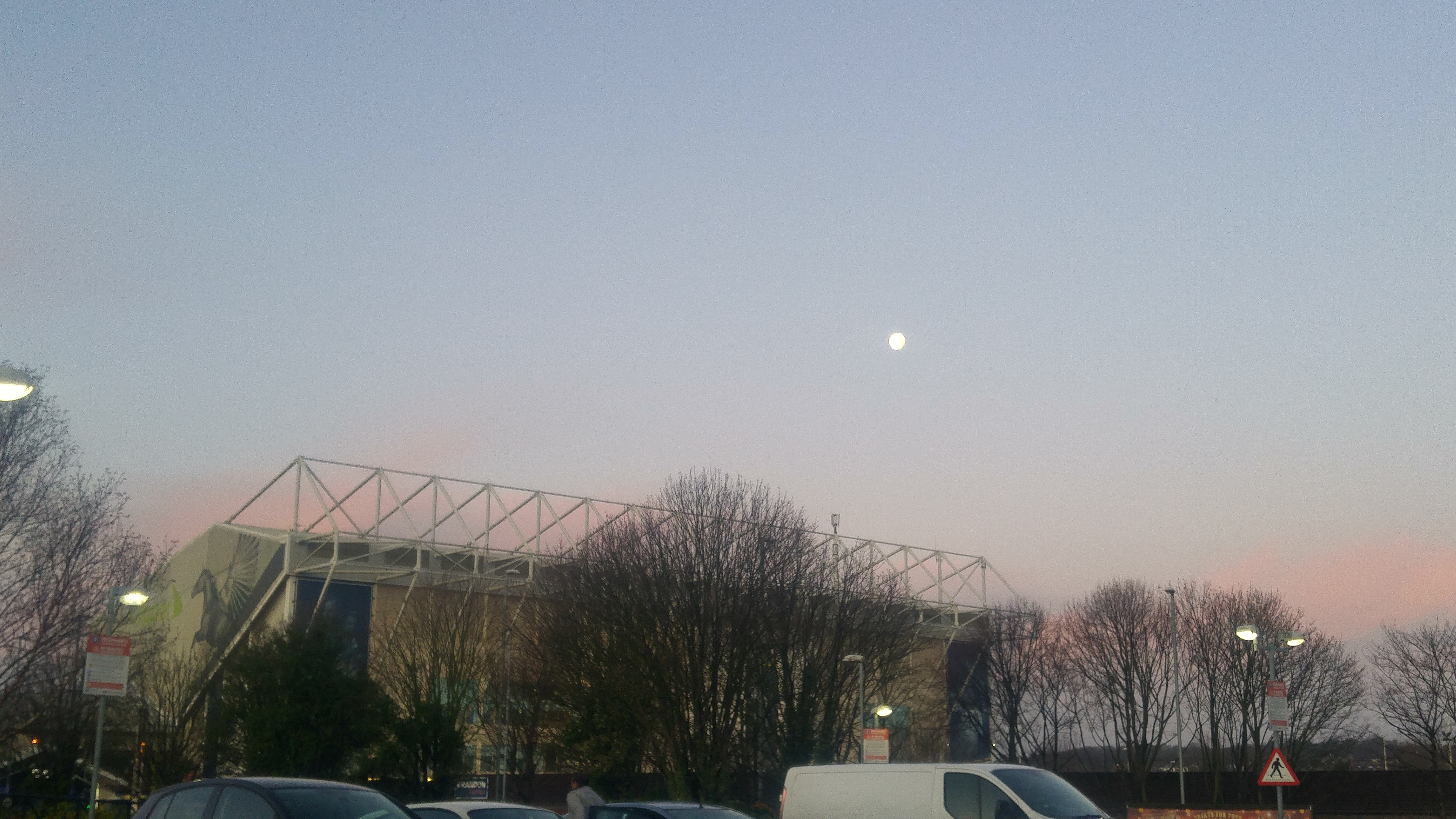 Moon over Elland Road Stadium, December 2019, Leeds